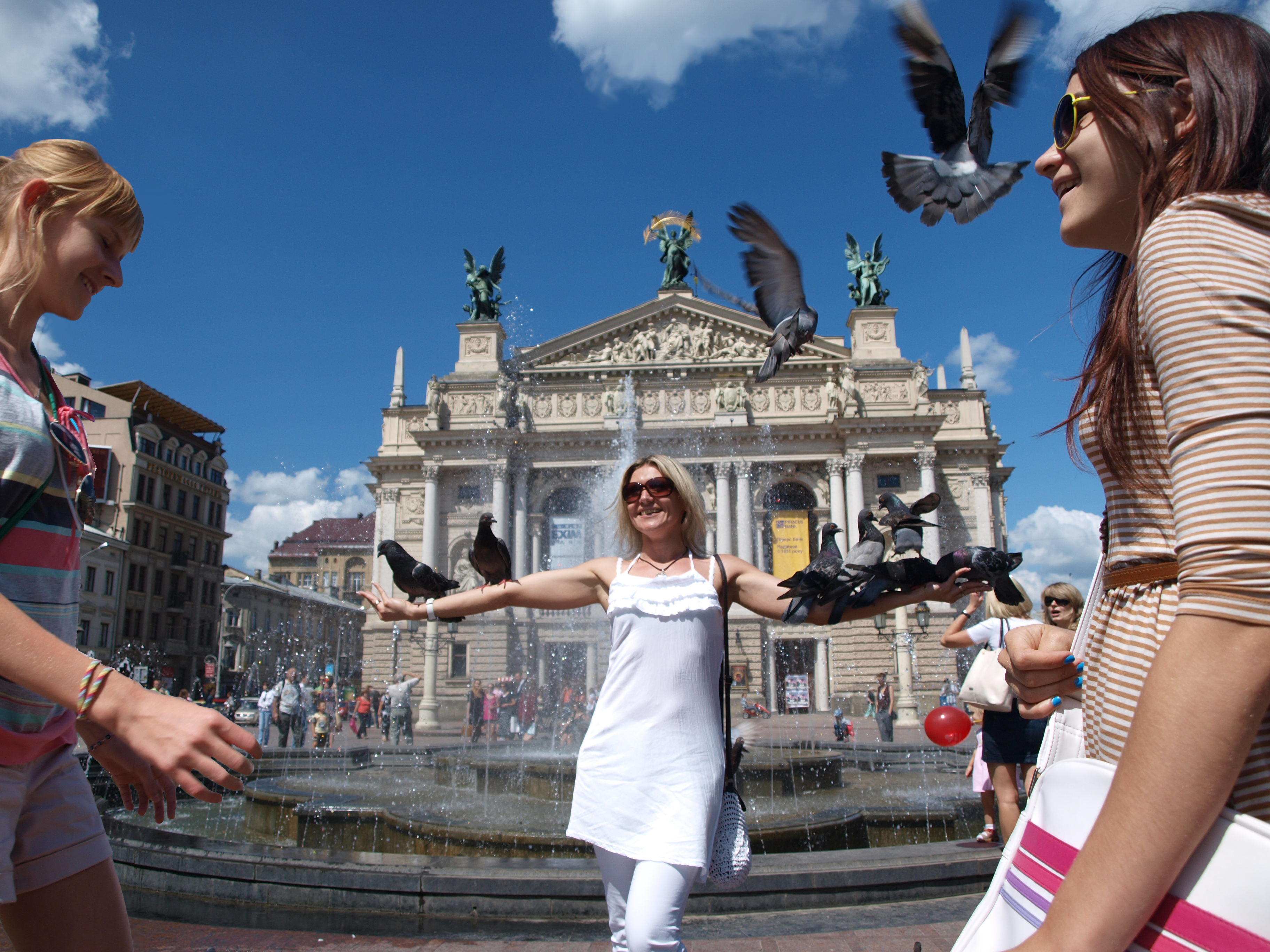 Ukraine girls in front of Lvov Opera house. Ukraine.